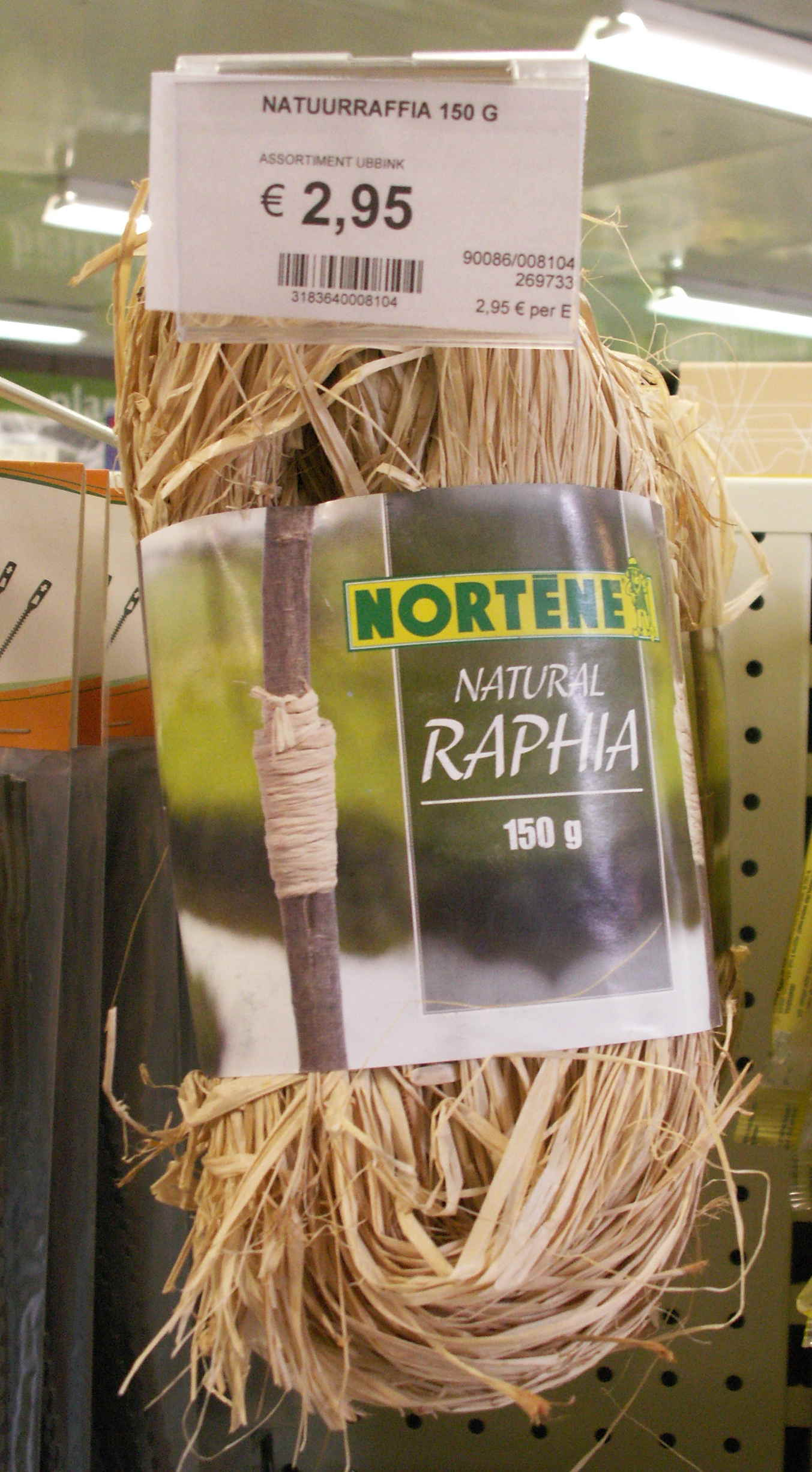 A picture of raffia, which can be used to graft trees.